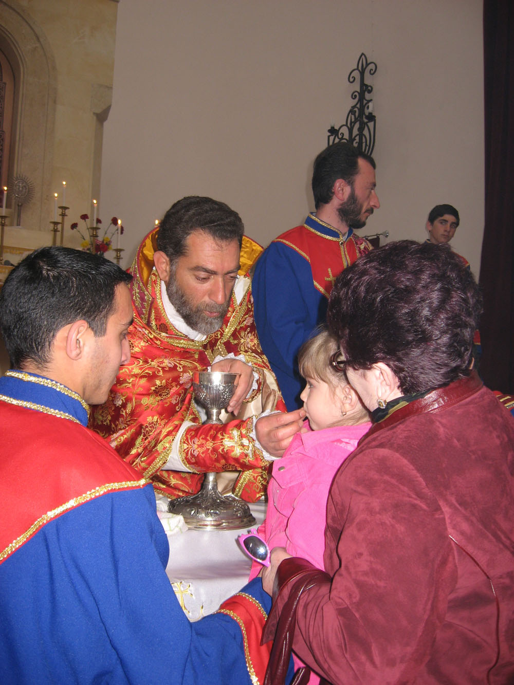 Bishop Sebouh Chouldjian, the primate of the Diocese of Gougark of the Armenian Apostolic Church, gives Holy Communion to a child